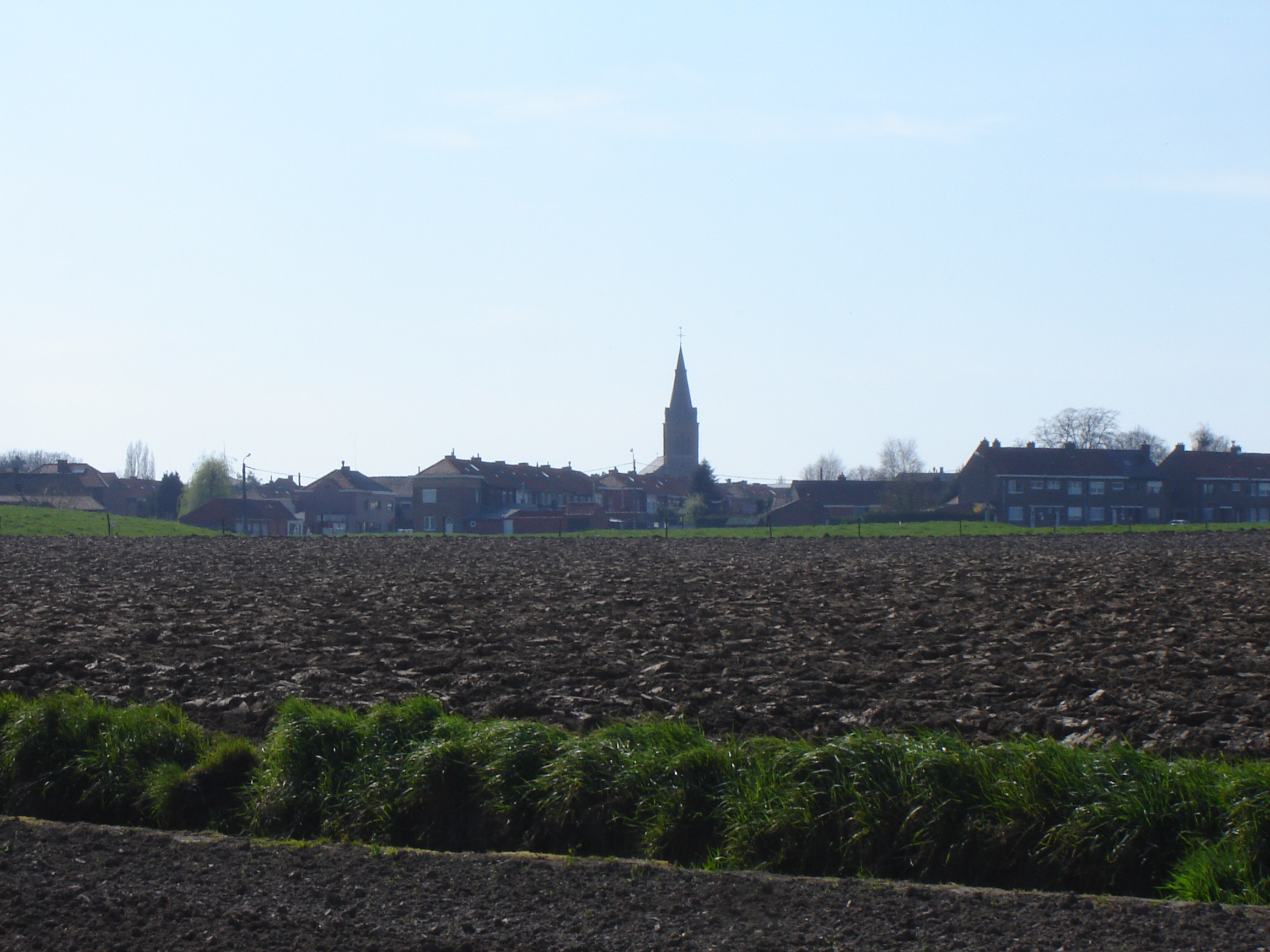 View on the village centre of Herseaux, with the church of Saint Maurus. Herseaux, Mouscron, Hainaut, Belgium